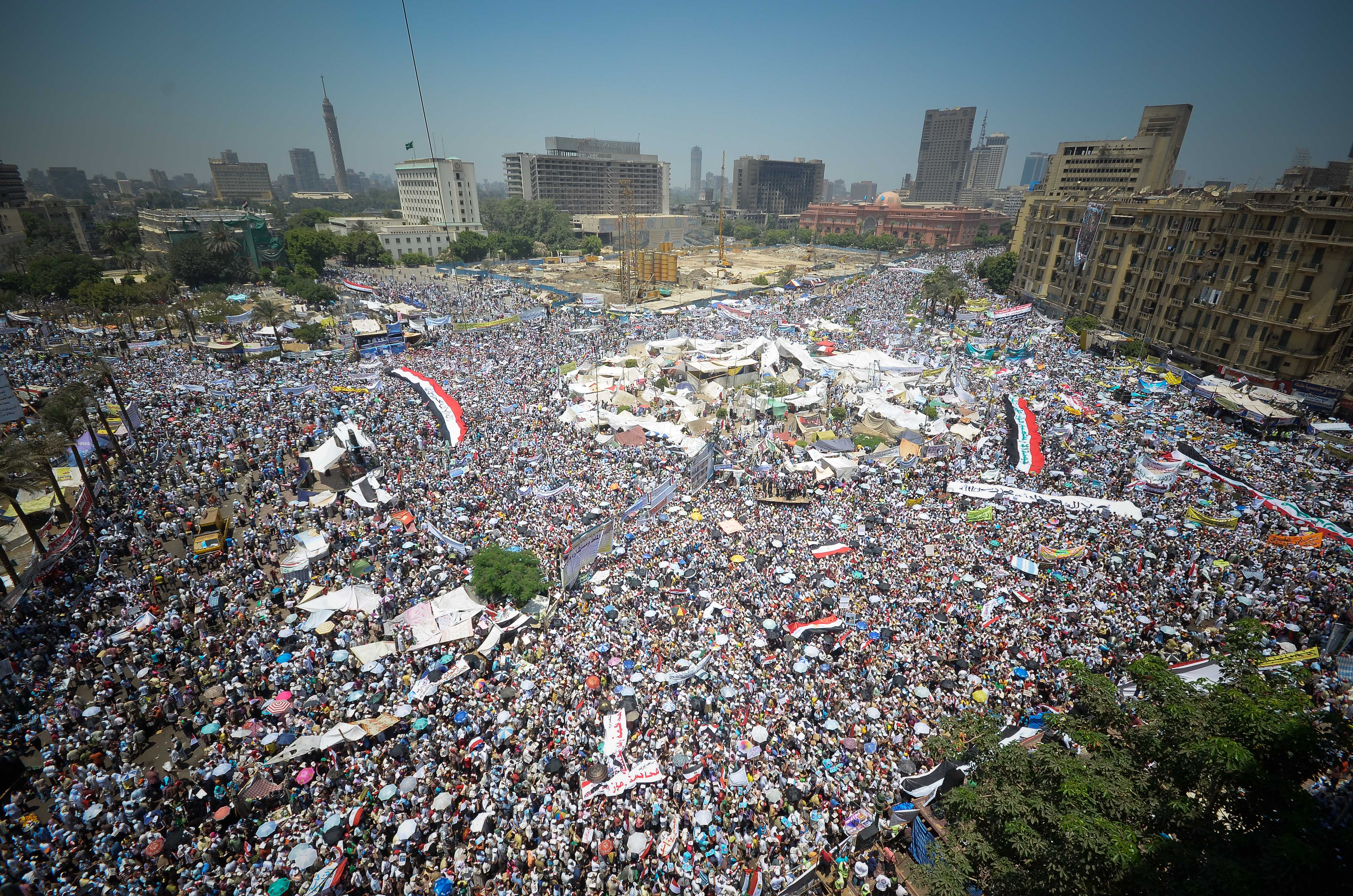 Tahrir Square on July 29 2011 during the Friday of unity which was later mockingly dubbed "Kandahar Friday" due to the Islamists coalesced in Tahrir and Islamists chanting "Islamiya, Islamiya". There also was small scale clashes and heated-word exchanged between the Islamists and other protests. The secular forces said that the Islamist did not hold the agreement they all had about not chanting anything outside the main revolutionary demands.